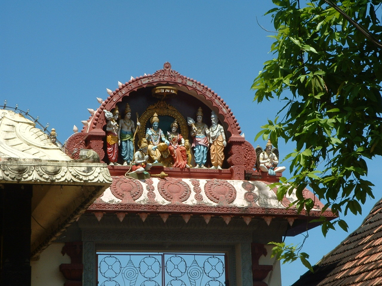 The gopuram of a Hindu temple in Kochi, India.